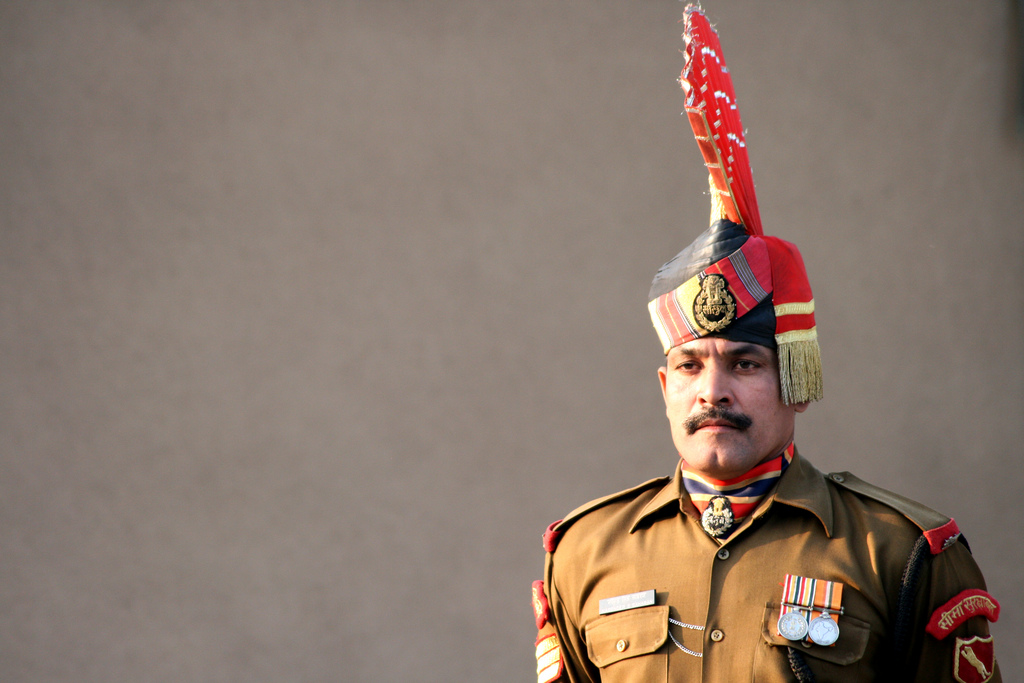 India's Border Security Force personnel